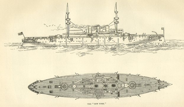 USS New York, from Appleton's Annual Cyclopedia & Register, 1891.